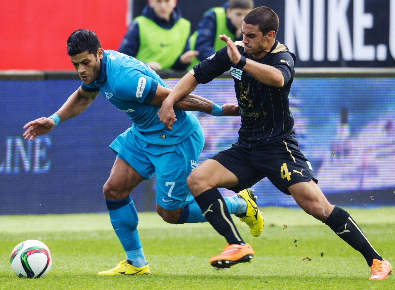 Guillermo Cotugno vs. Hulk